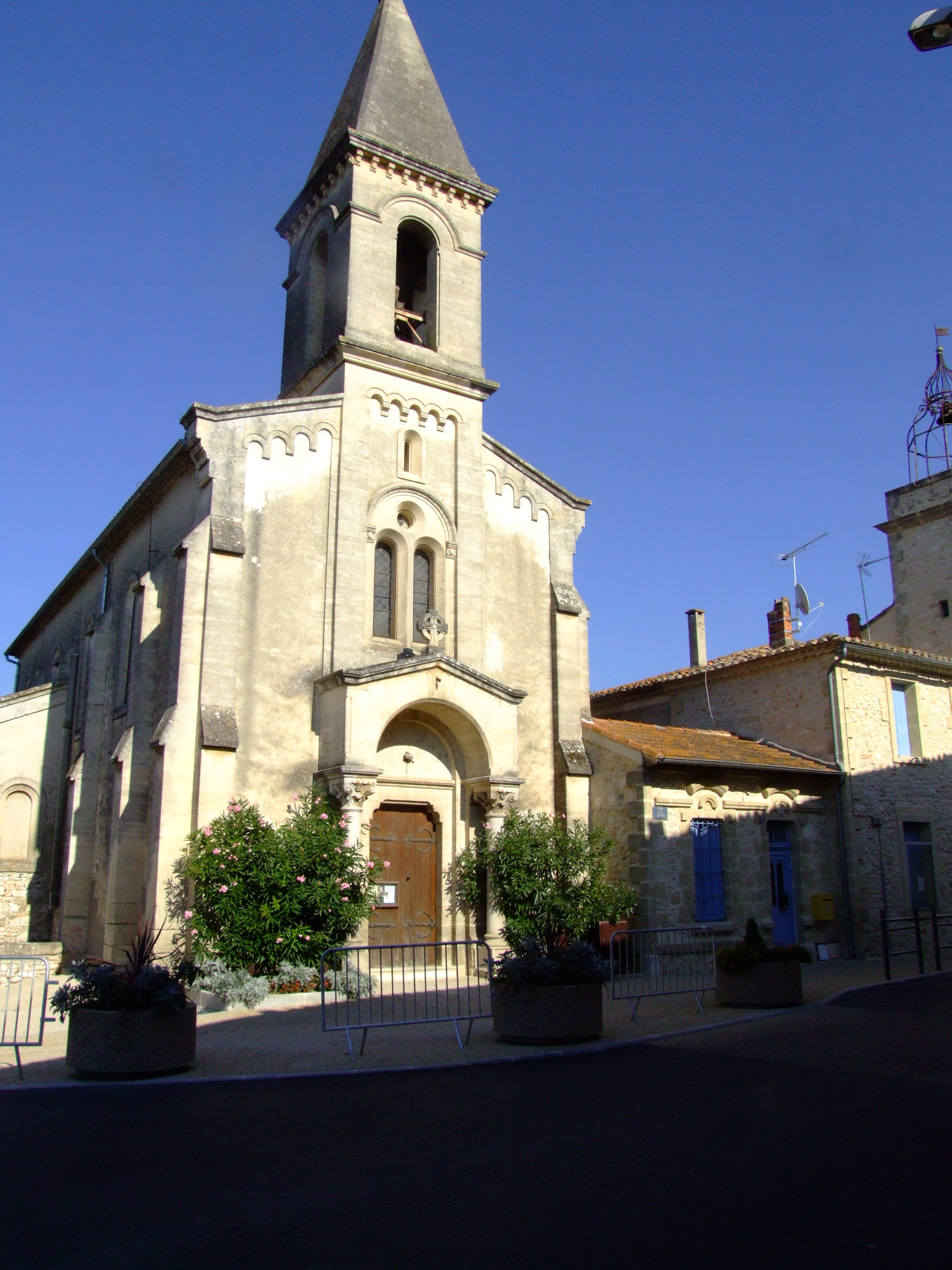 Salinelles is village on the west bank of the Vidourle in the department of Gard, France, some 3 km north west of Sommières..